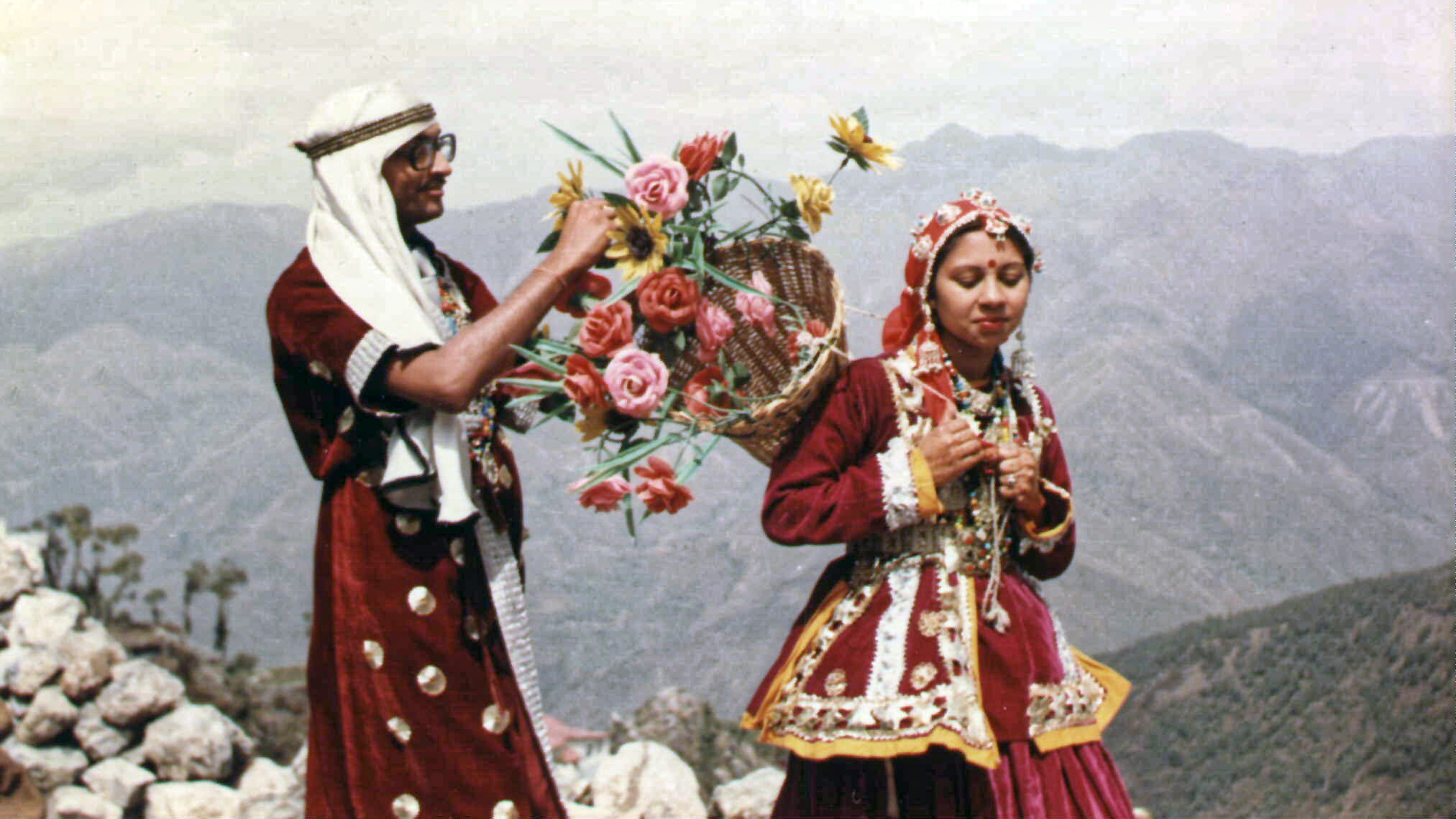 Wikimedia public domain photograph with removal of blemishes and scratches, colour correction to remove orange cast, and contrast/sharpening, with DxO PhotoLab, Viewpoint 3, and Adobe Photoshop CS2. Kept original width to show full hill range, but altered aspect ratio to 16:9, with cropped-down excessive sky to focus more on the subjects, and raise them higher in the image.